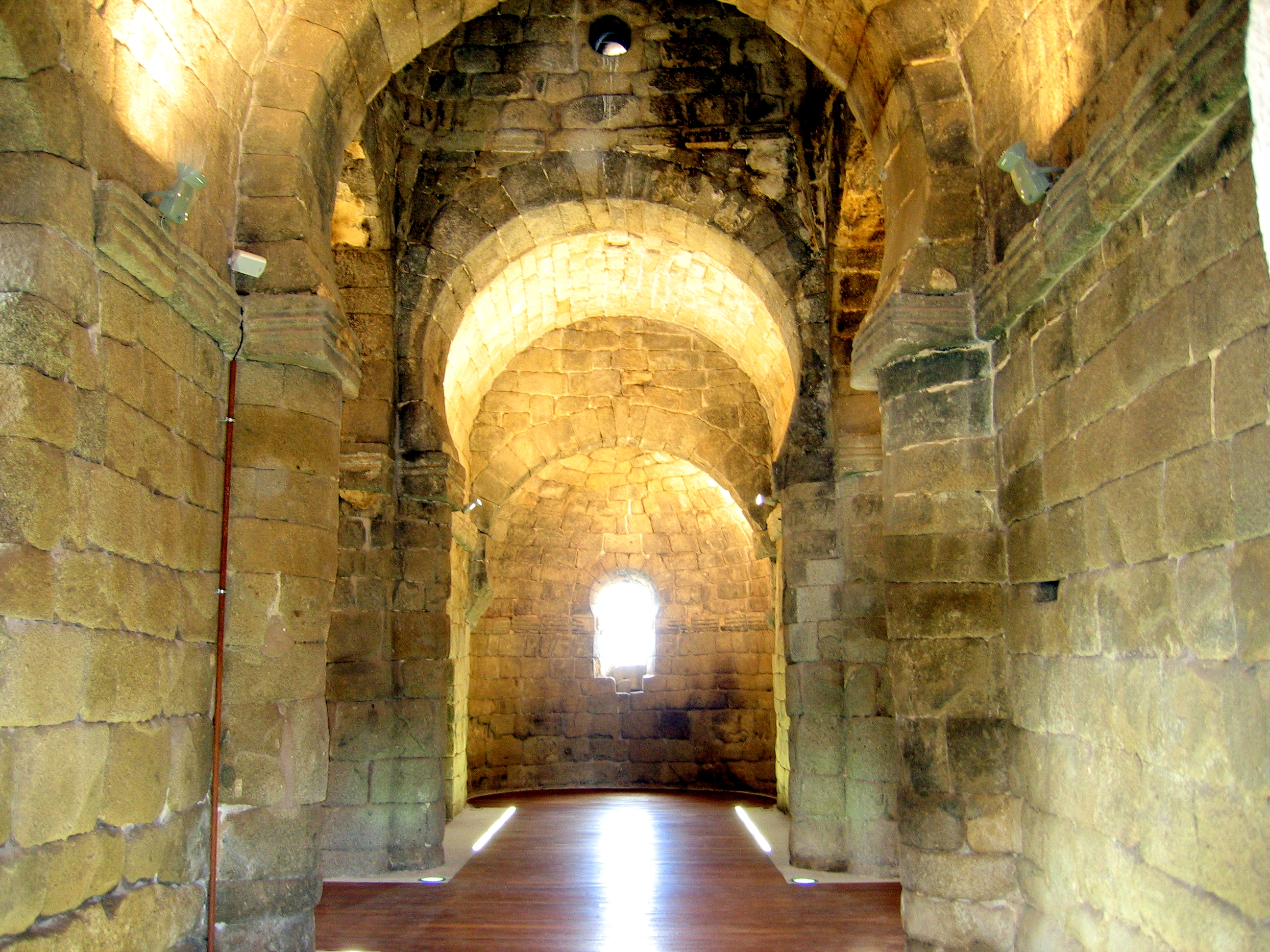 Interior of Santa María de Melque Church, in San Martín de Montalbán (Toledo, Castile-La Mancha, Spain). Built in the first half of the 8th century.